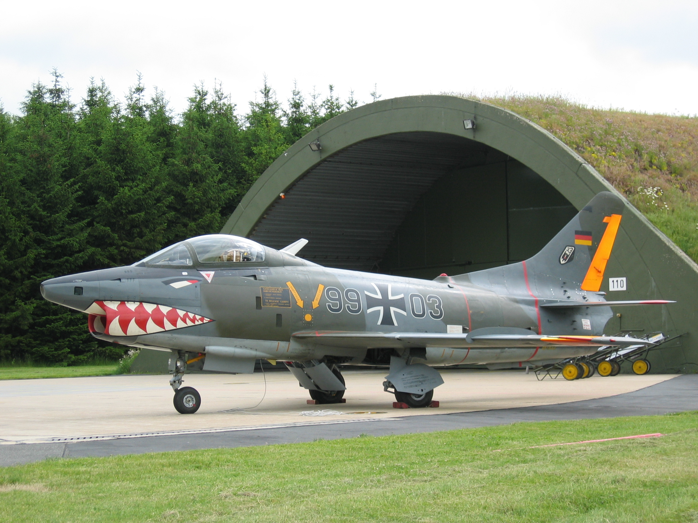 A German Fiat G-91R/3 "Gina" (Luftwaffe serial 99+03) used by the Luftwaffe's 33rd Fighter-Bomber Wing (JaboG 33) at Buechel Air Base (state of Rhineland-Palatinate, Federal Republic of Germany) as a stationary training object for the wing's maintenance group. In the background one of the wing's hardened aircraft shelters is visible.